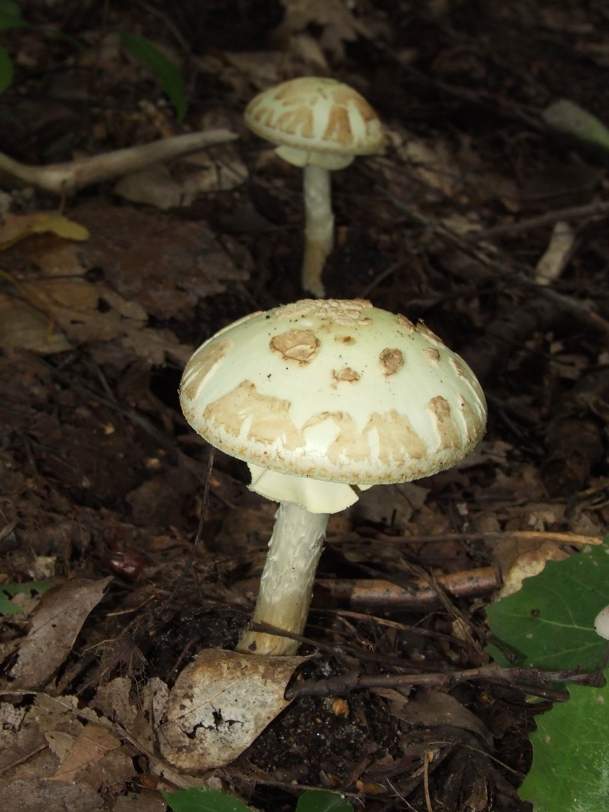 Amanita citrina, picture taken in Poland near Warsaw